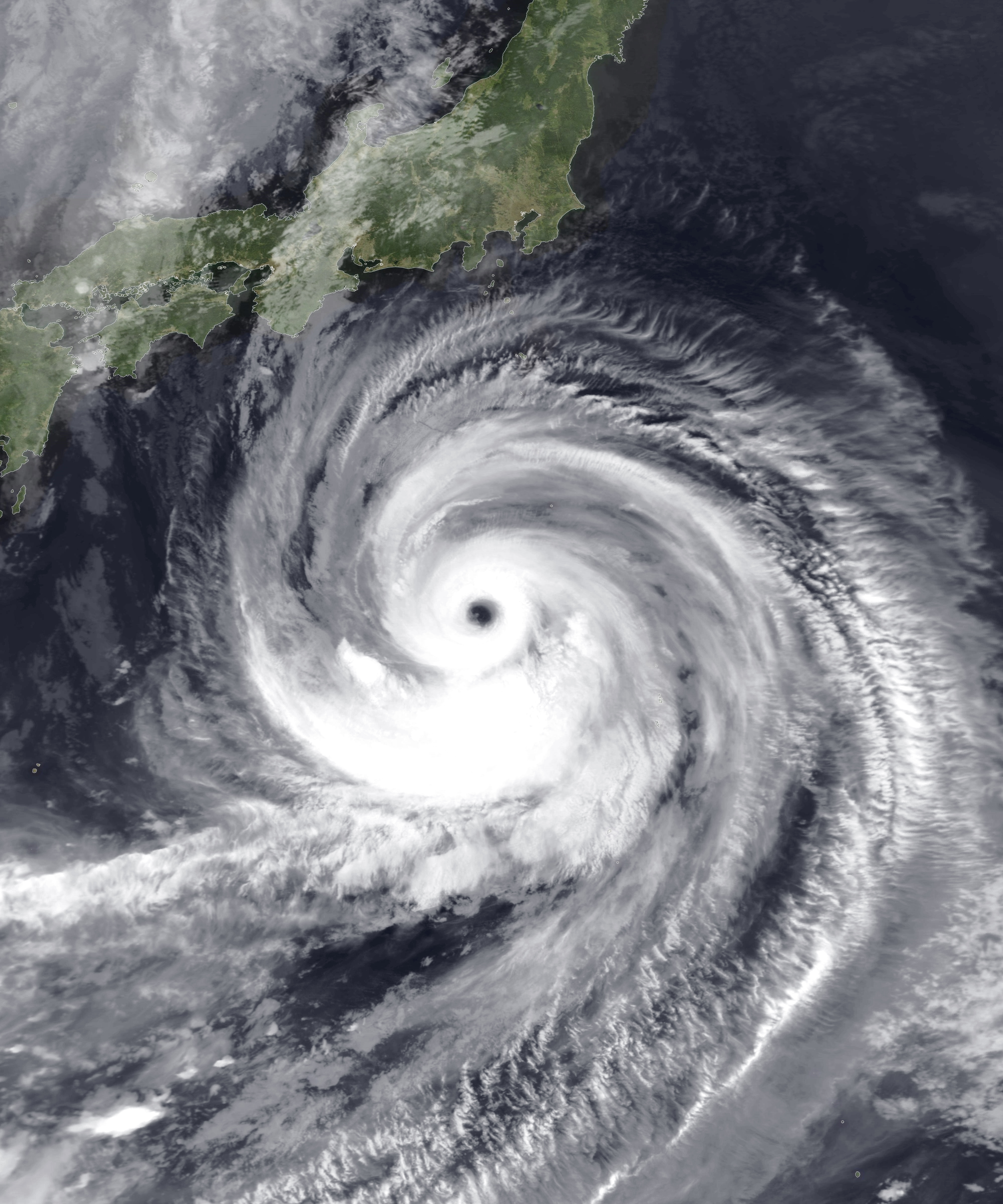 Typhoon Lionrock on August 28, 2016